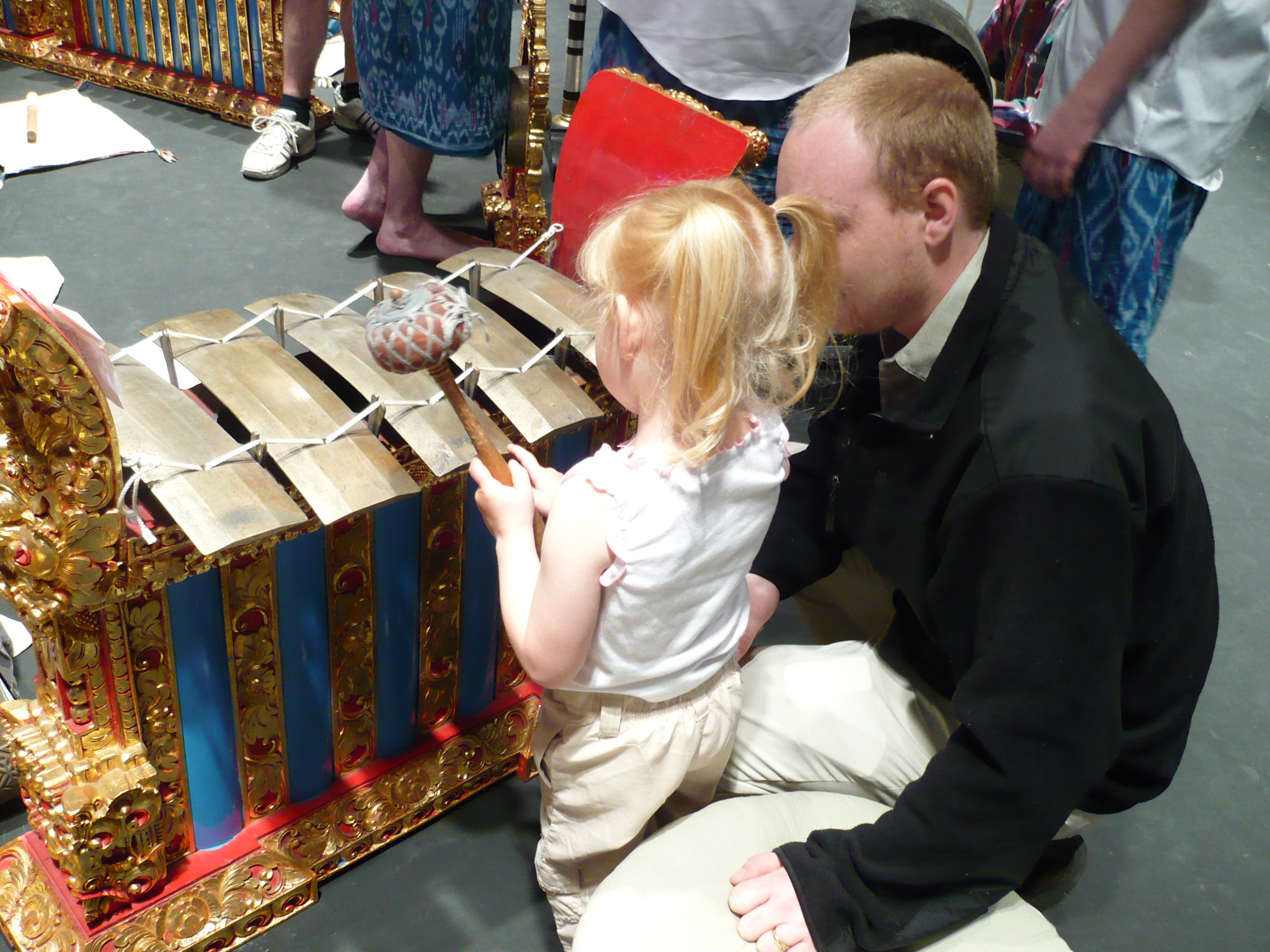 A community member playing one of the two jegogans of the Bowling Green Kusuma Sari Gamelan Ensemble of Bowling Green State University of Bowling Green, United States. Photo taken following a concert by the Bowling Green Kusuma Sari Gamelan Ensemble, in the Fine Arts Theatre, Fine Arts Building, Kent State University Stark Campus, North Canton, United States.